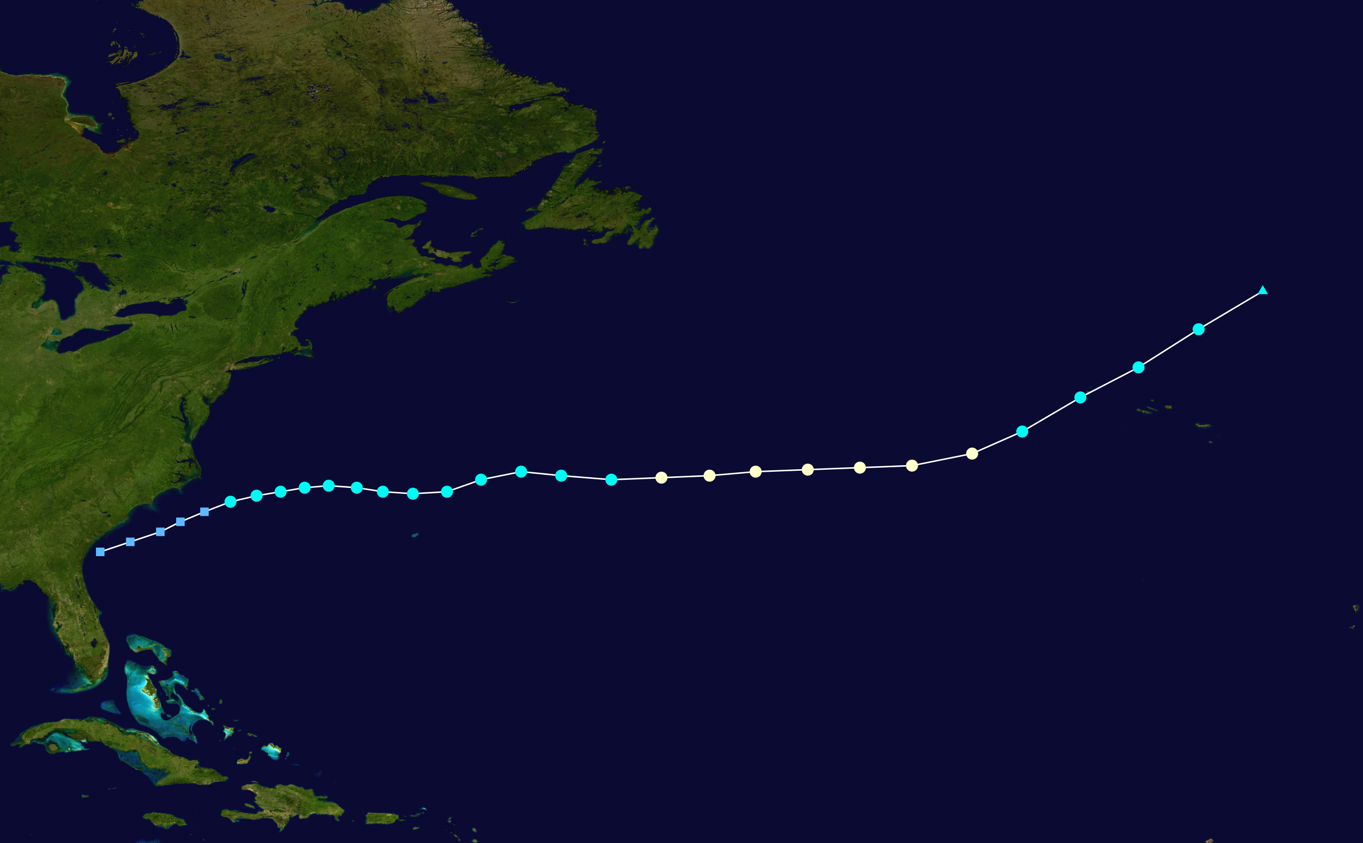 Hurricane Claudette (1985) track. Uses the color scheme from the Saffir-Simpson Hurricane Scale.